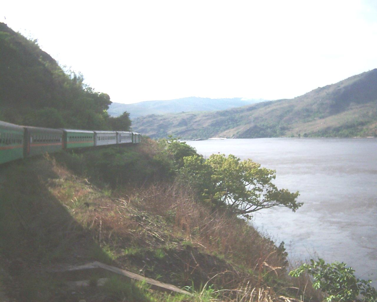 Personal picture (november 2003), arrival at Matadi railway station. M'pozo River coming in River Congo. I set it in public domain.